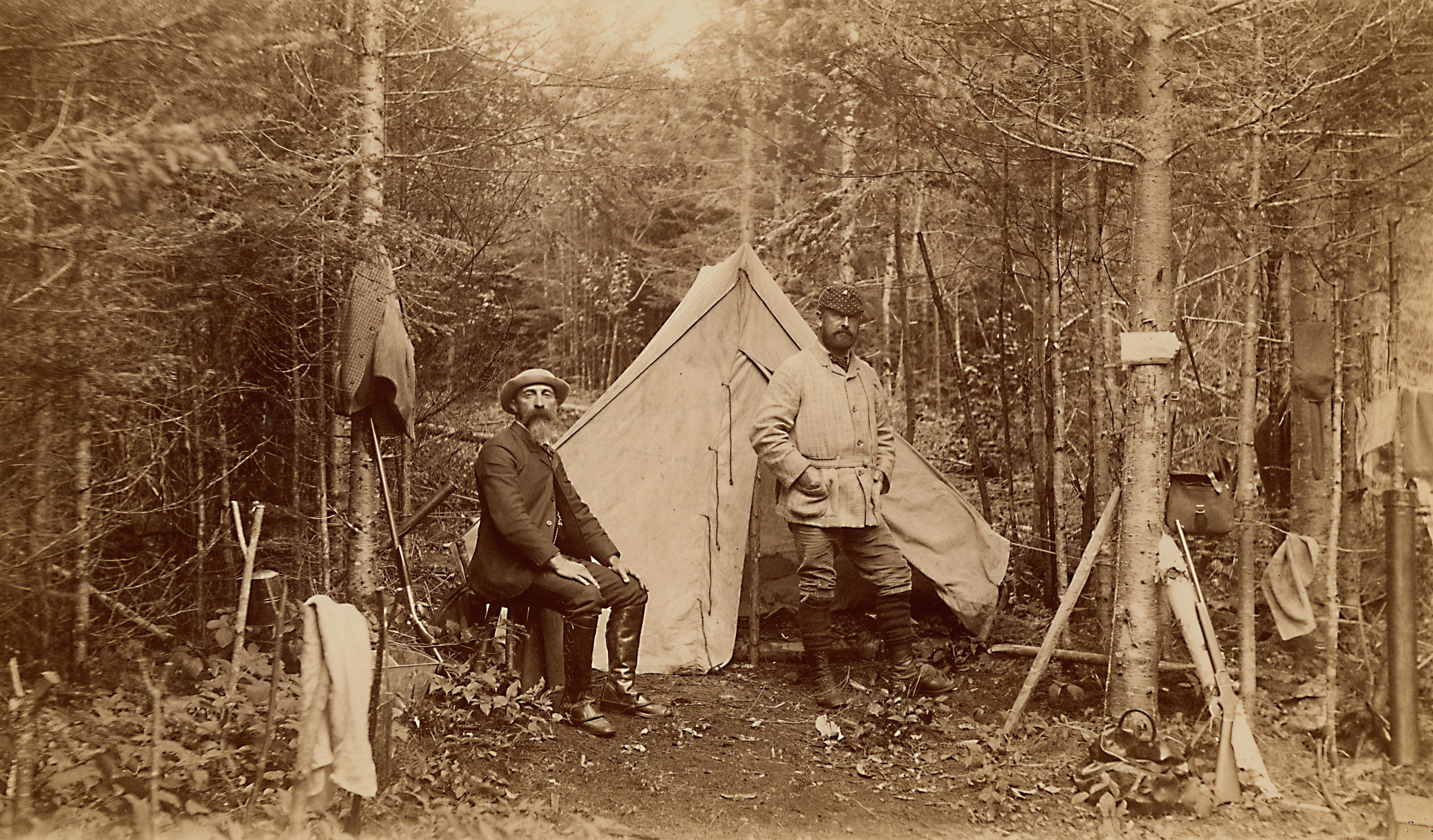 John Dunn and his party of hunters built Camp Russell, an outpost at Russell Pond at the base of Russell Mountain, some fifteen miles north of Northeast Cove on Moosehead Lake, Maine. Dunn and his hunters likely took a steamship to the north end of Moosehead Lake, and traveled by packhorse for another day to reach their remote camp. Retouched by MarmadukePercy